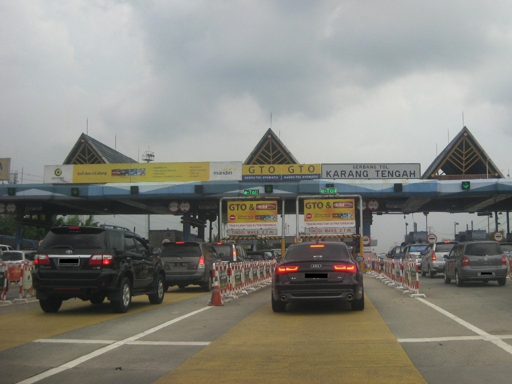 The Karang Tengah Toll Gate on the Jakarta - Tangerang Toll Road. Cars shown are Toyota Fortuner (KUN60), Audi A6 2.8 S-Line (C7), and Nissan Grand Livina (L10).